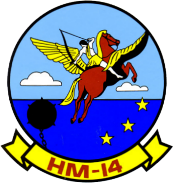 Insignia of the U.S. Navy Helicopter Mine Countermeasures Squadron 14 "Vanguard". The squadron was established on 12 May 1978 and the insignia was approved on 8 June 1978.